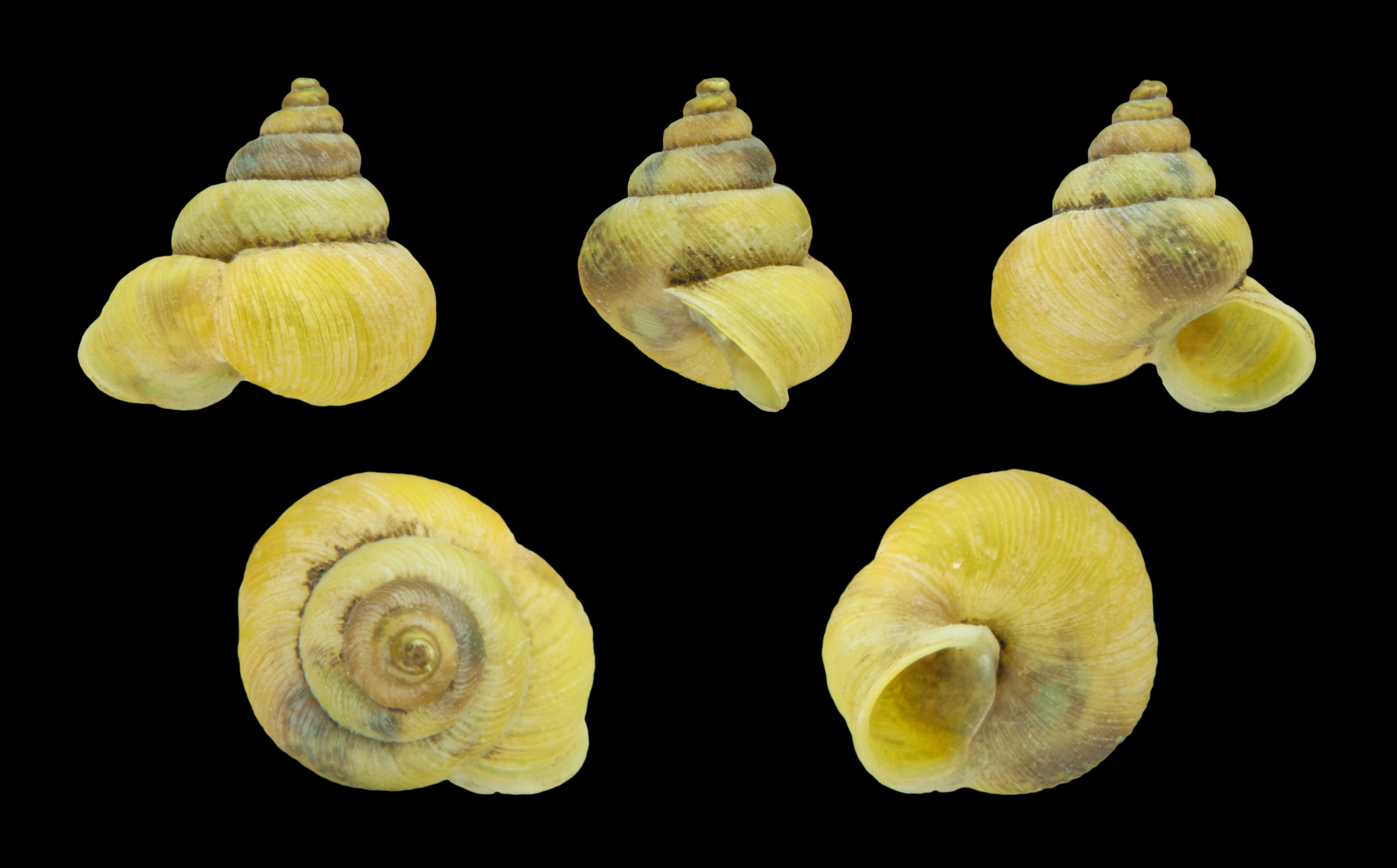 Alycaeus jagori Von Martens, 1889; height 0.6 cm; Originating from Aceh, Indonesia; Shell of own collection, therefore not geocoded.